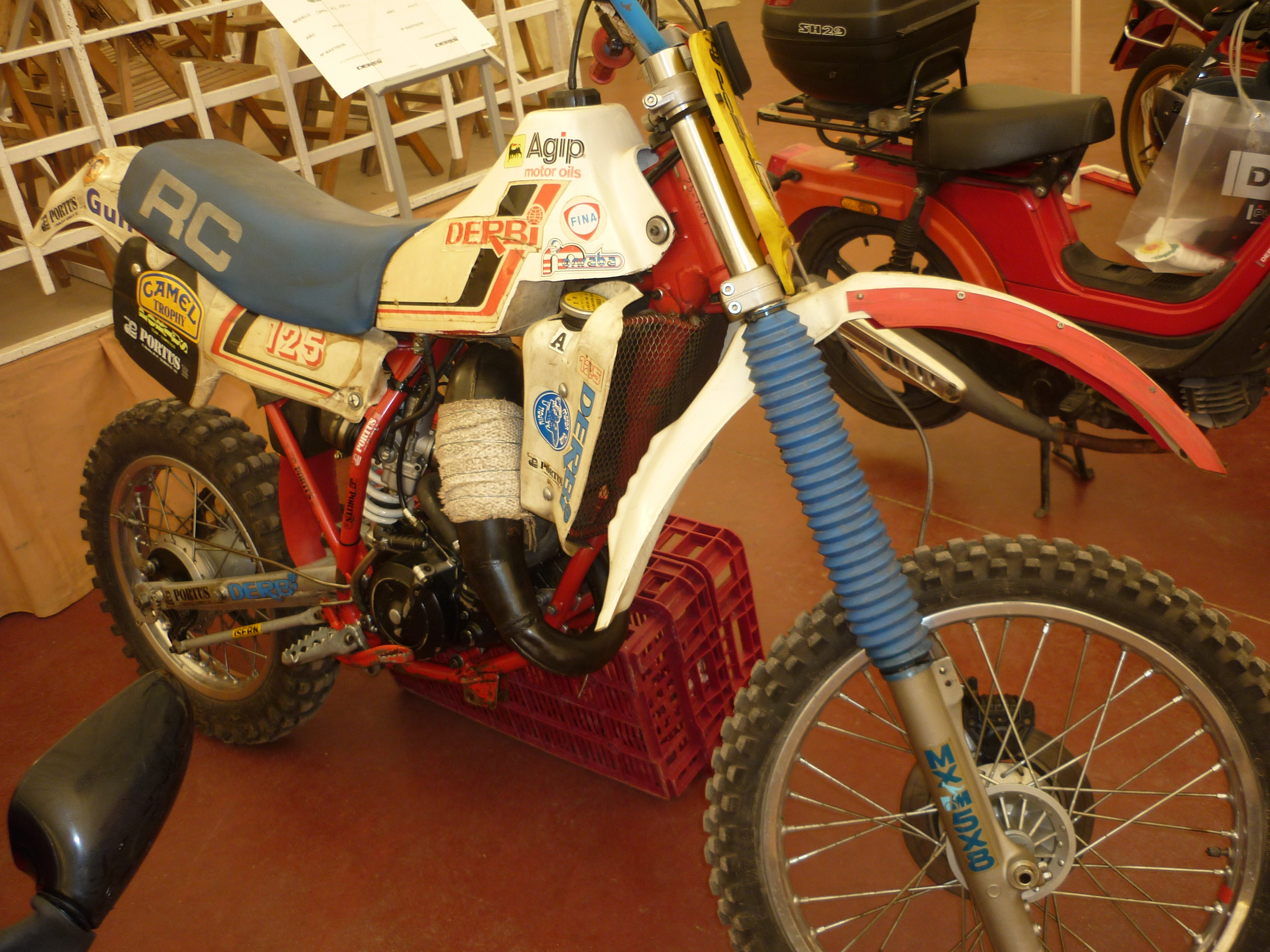 Derbi RC 125cc (1983).Motorcycle meeting held on September 10, 2011 in Can Carrancà (near the Derbi factory in Martorelles, Catalonia).